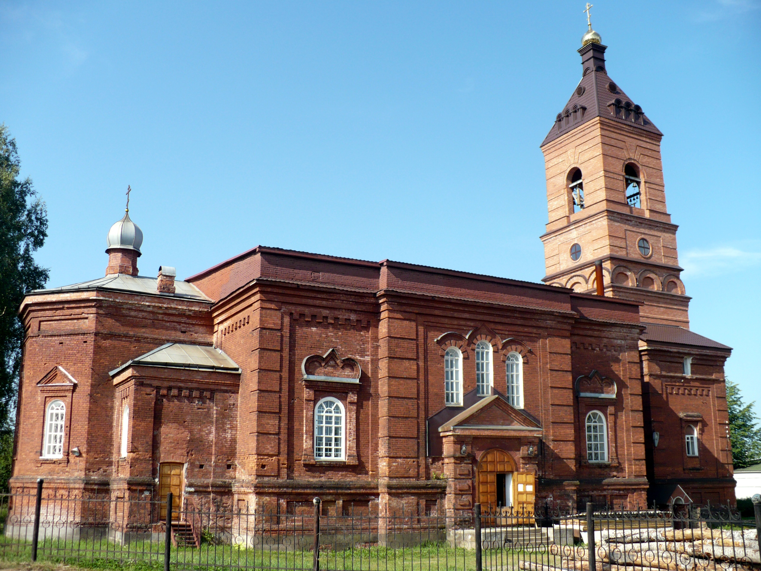 Church of Alexander Nevsky in Okulovka, Novgorod Oblast, Russia